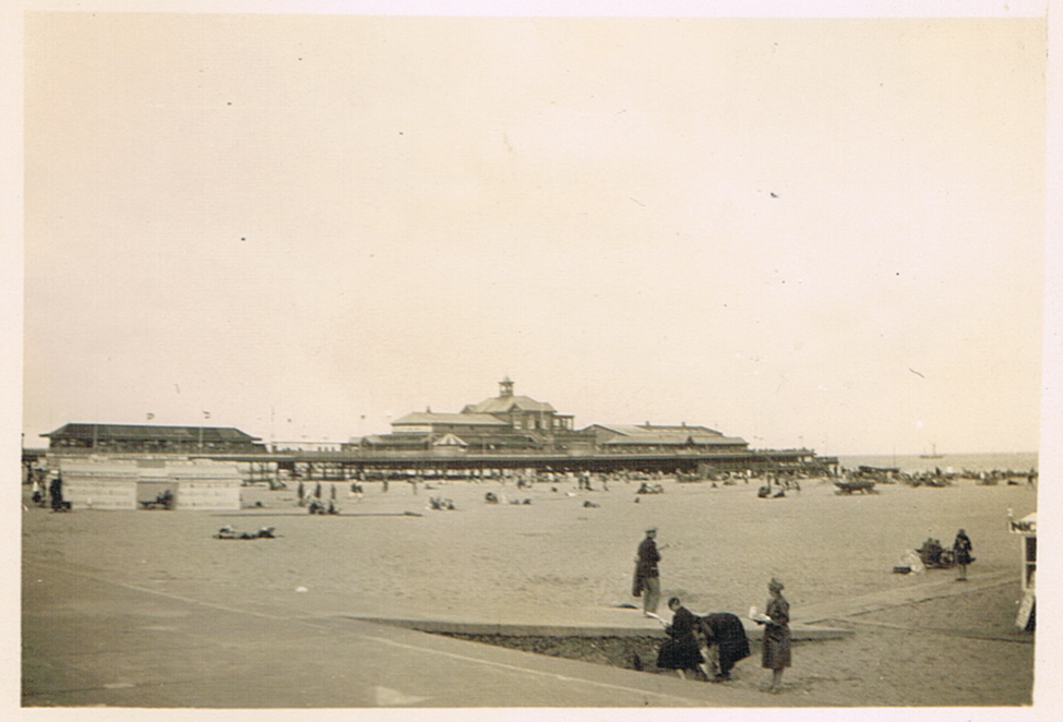 Great Yarmouth - Wellington Pier. "...which could you could see was very prettily laid out with flower on both side of inside the entrance." From Harold M. Monck's Journal.